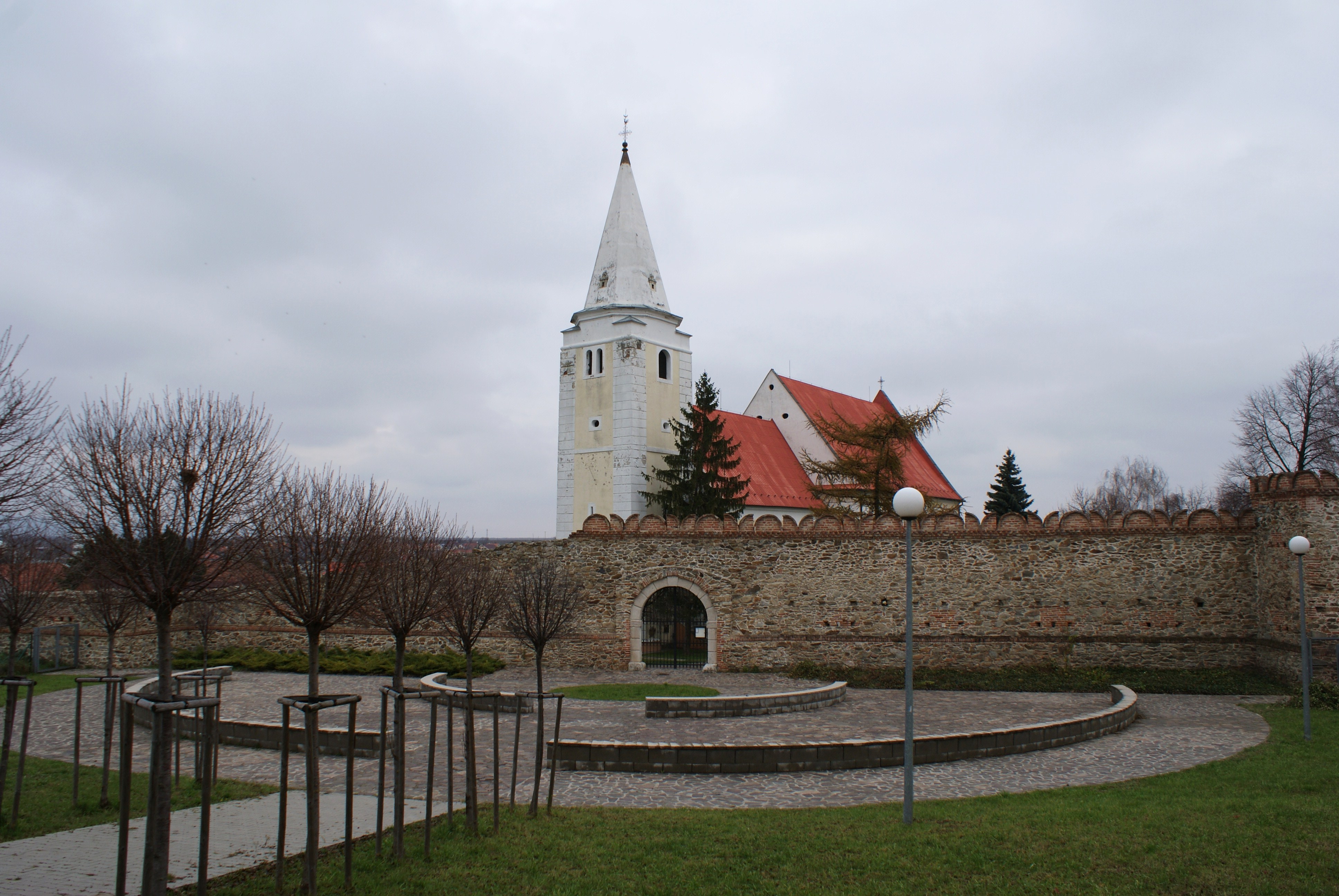 Church in Šenkvice, Slovakia, seen from the rear